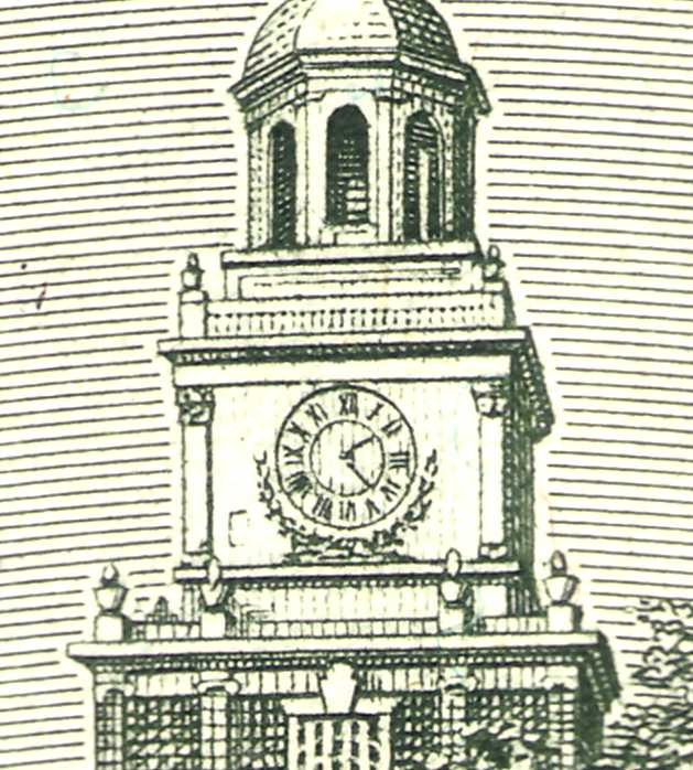 cropped reverse of the U.S. 100 dollar Federal Reserve note.